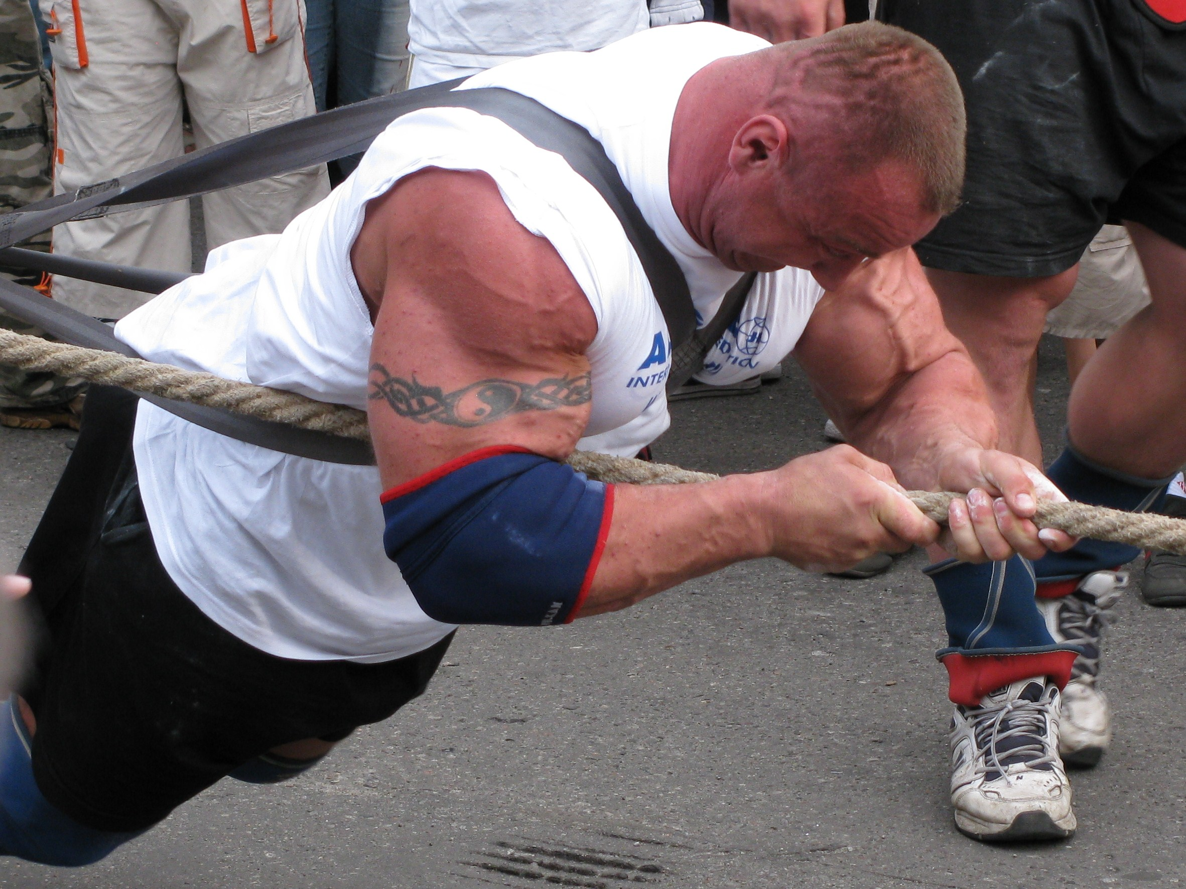 Mariusz Pudzianowski - the Power